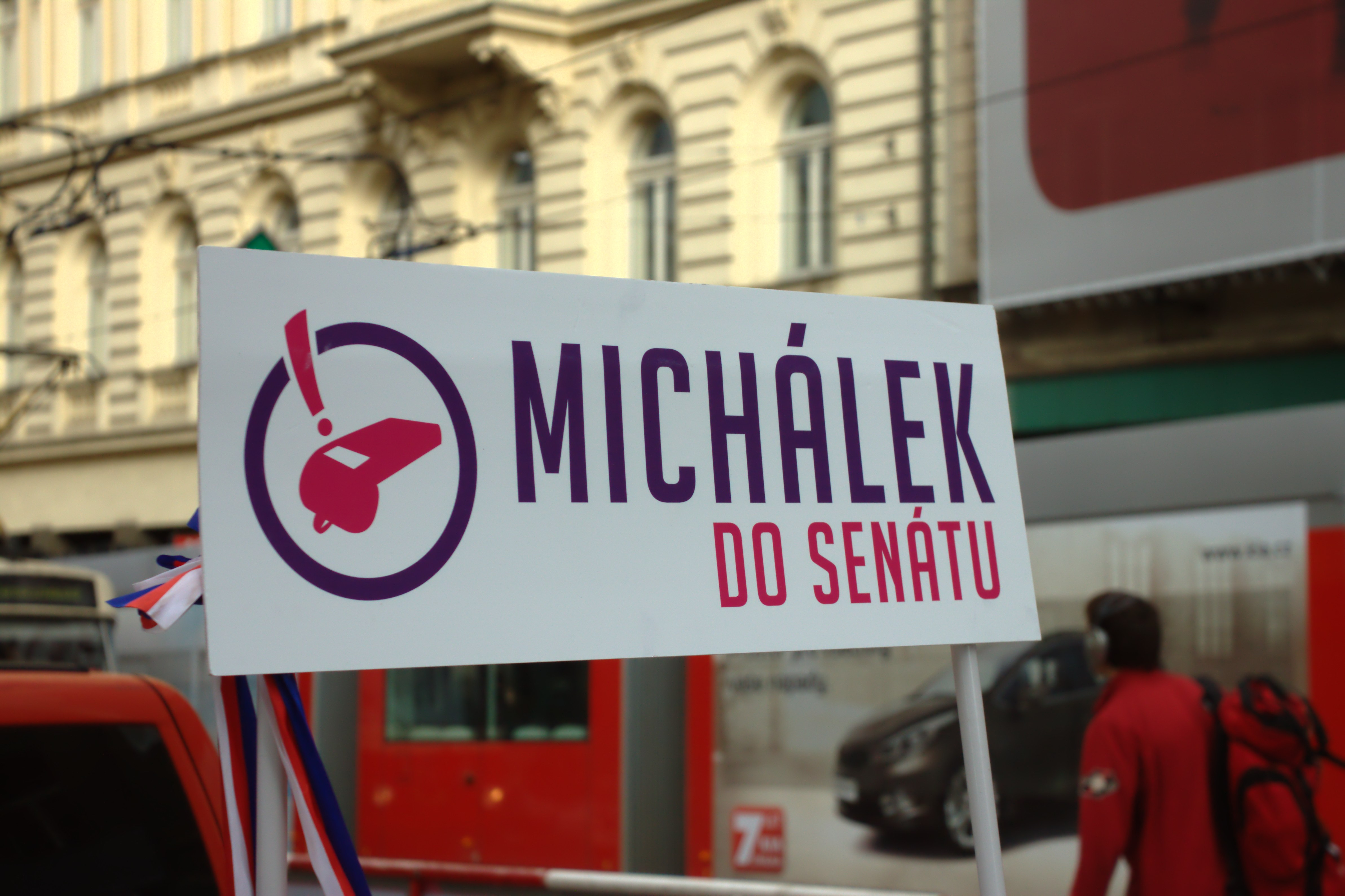 Political camapign of Libor Michálek in Prague, I. P. Pavlova tram stop